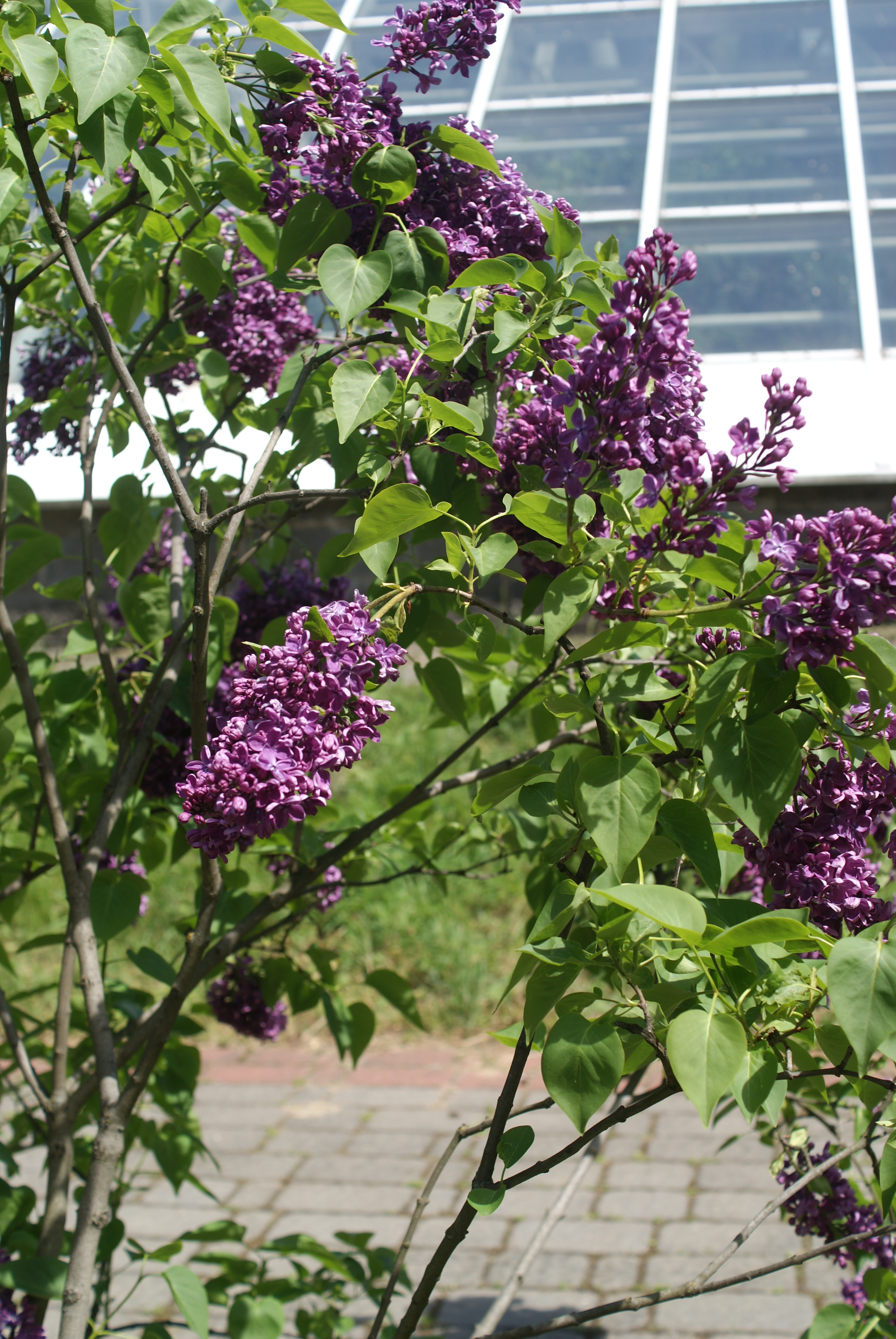 Syringa 'Gilbert'